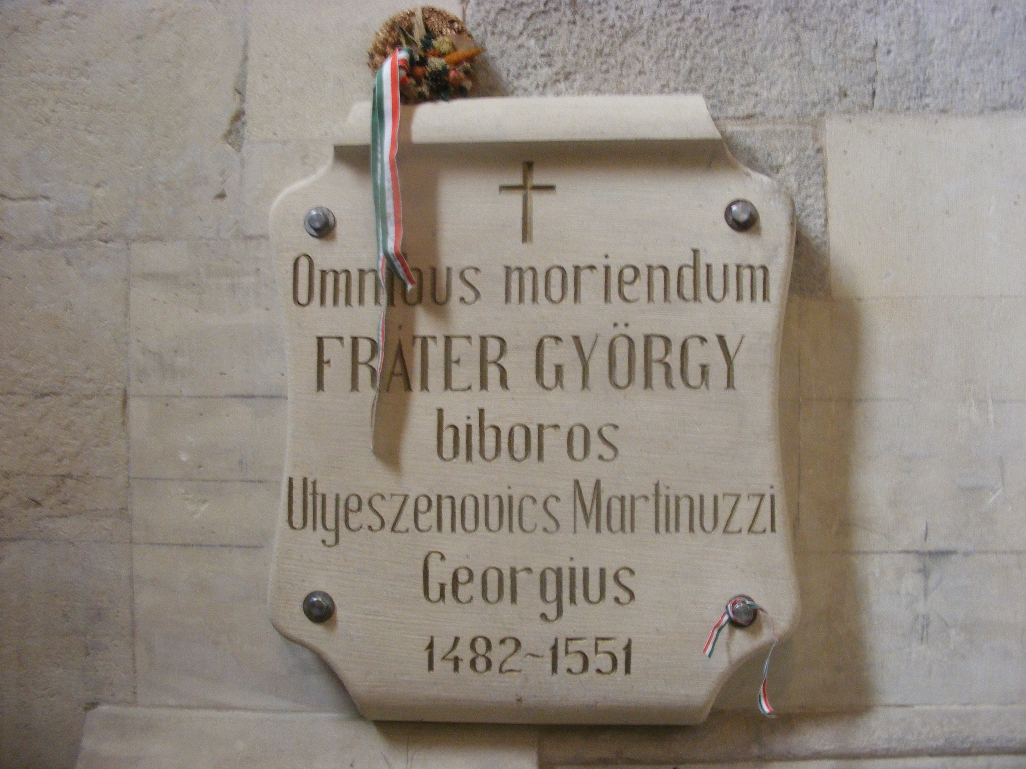 Fráter György's grave in Gyulafehérvár (Alba Iulia)